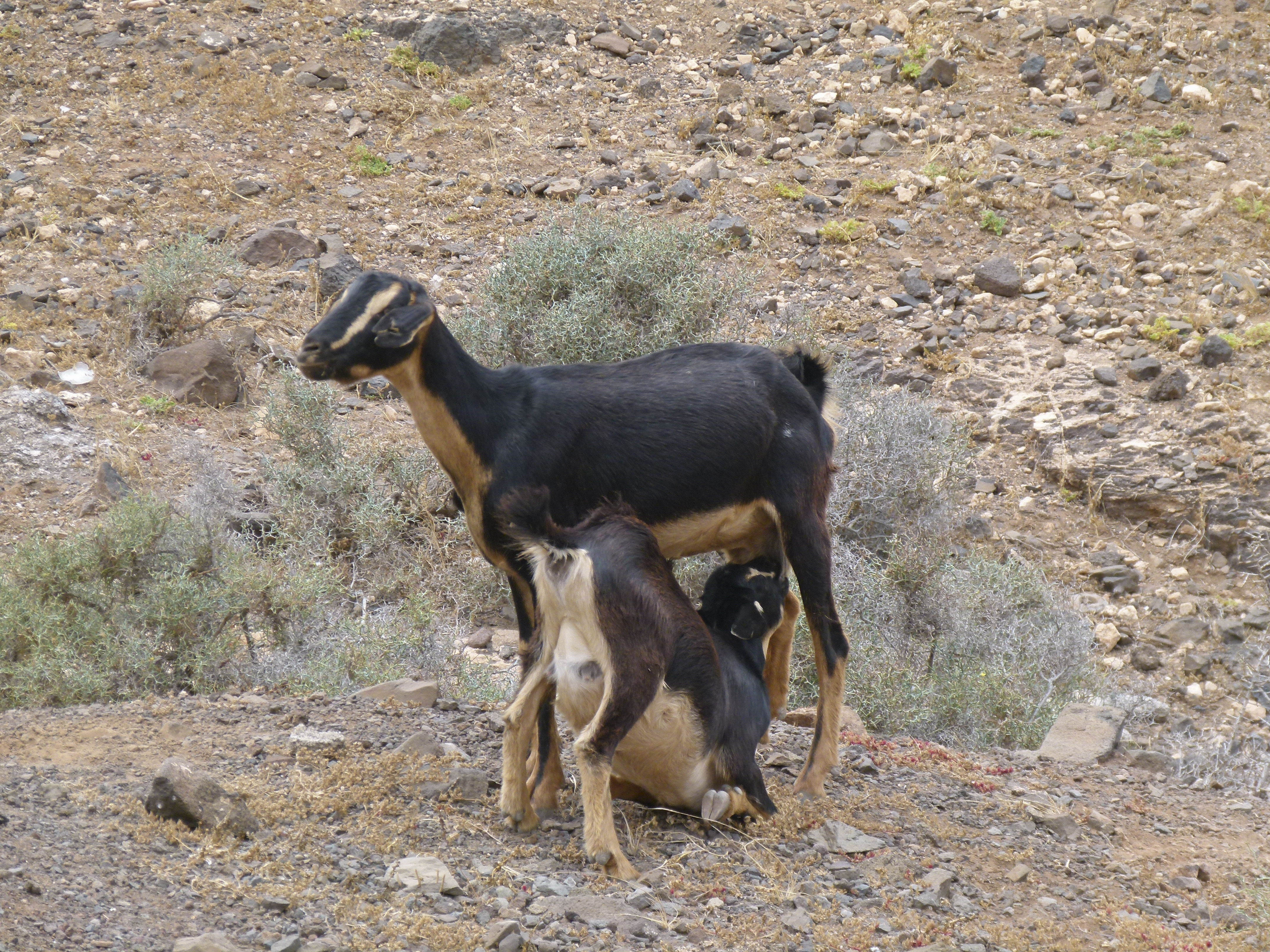 Goats - El Cofete - Jandia - Fuerteventura, Canary Islands, Spain.